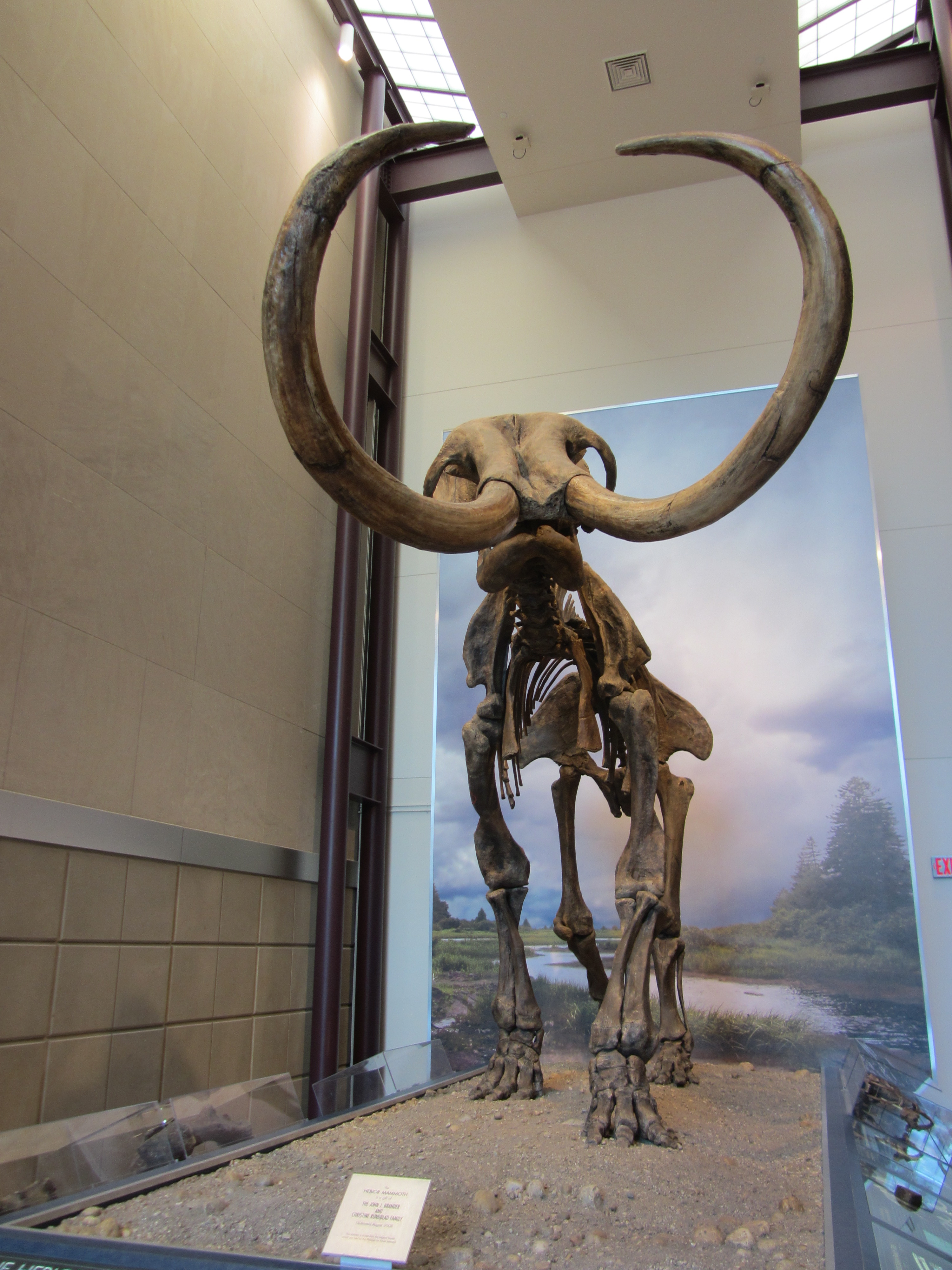 The Hebior Mammoth, found near the small town of Paris, Wisconsin. Currently in the atrium of the Milwaukee Public Museum.